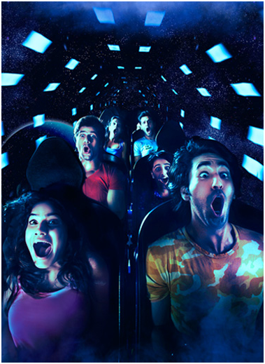 Deep Space Roller Coaster at Adlabs Imagica is a deep Dark Roller Coaster full of thrill and adventure